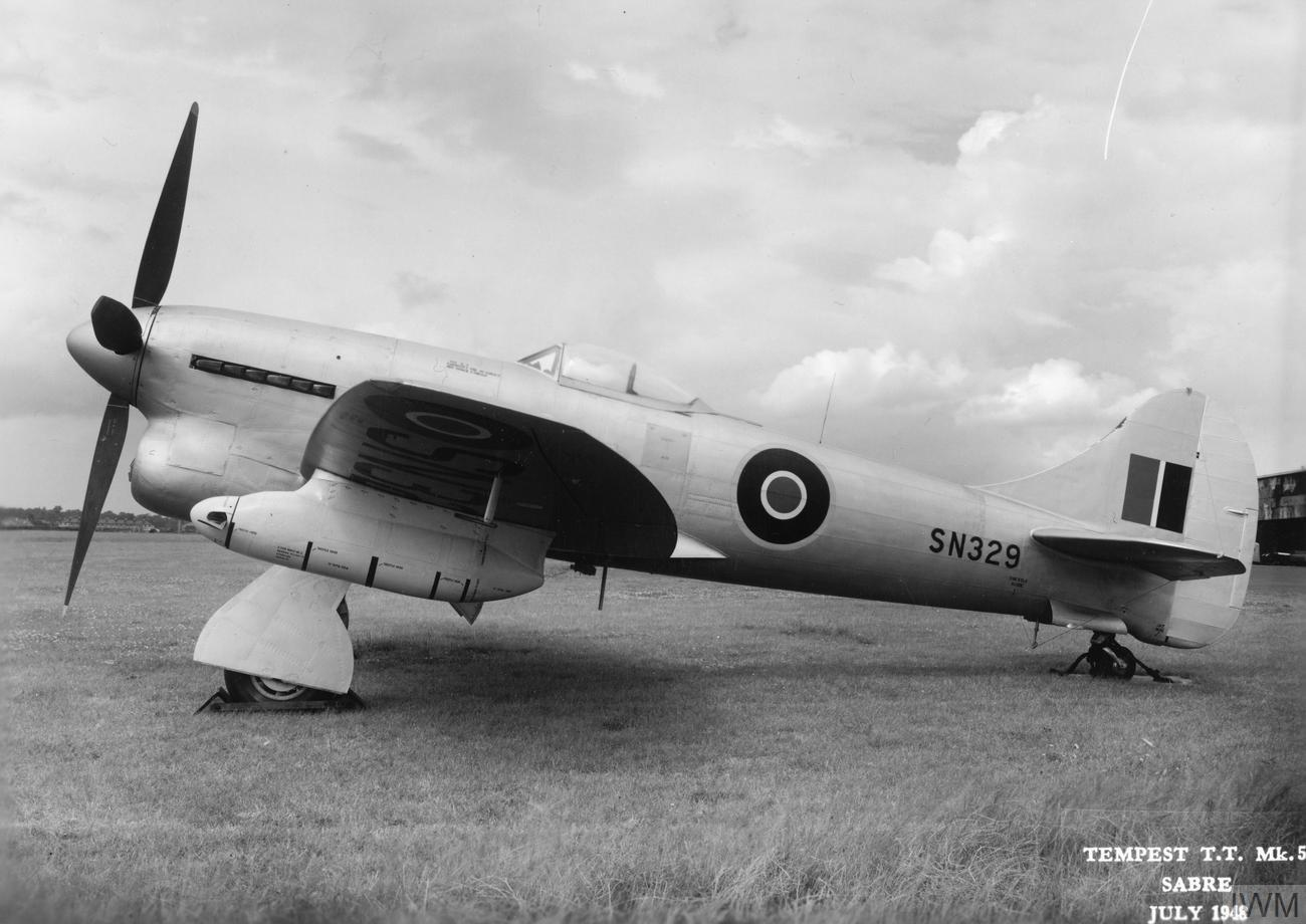 The Royal Air Force prototype Hawker Tempest TT Mk 5 target tug in July 1948. It first flew in May 1947 and was tested at Beaulieu and Boscombe Down in 1947-48.